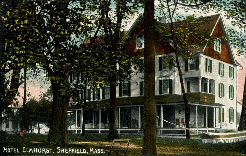 Hotel Elmhurst, Sheffield, MA; from a 1909 postcard published by The American News Company.